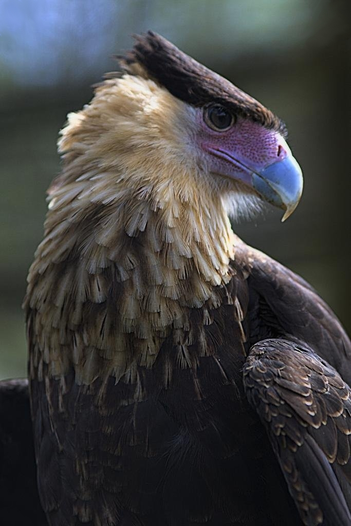 Northern Caracara (also called Northern Crested Caracara or previously Audubon's Caracara) at La Paz Waterfalls Gardens, Vara Blanca, Costa Rica.